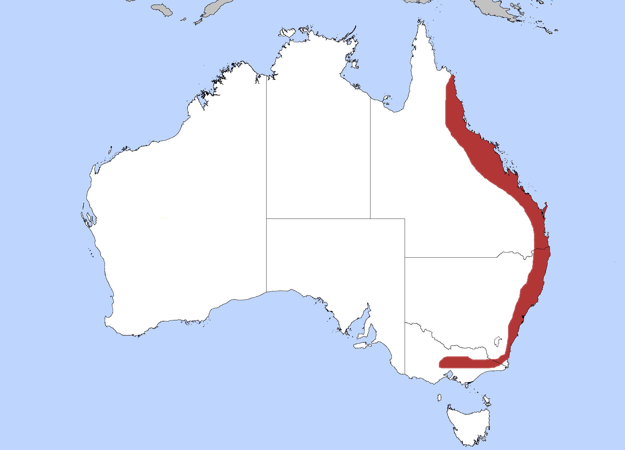 Columba leucomela White-headed Pigeon distribution.